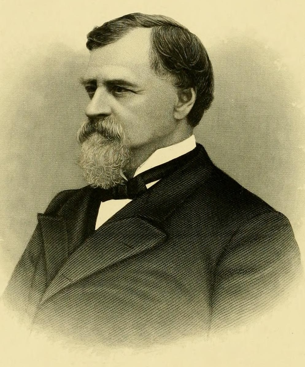 Charles Abbot Stevens, Congressman from Massachusetts